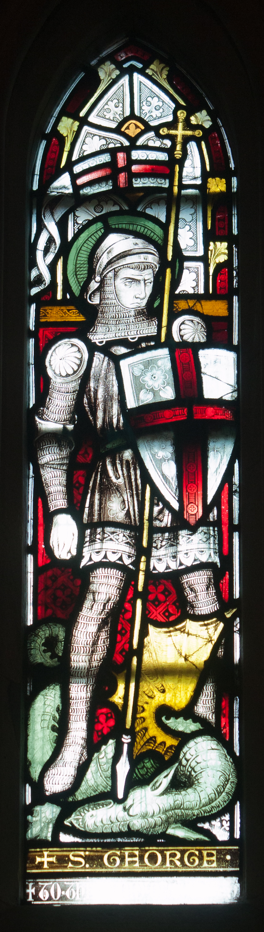 Left-most stained glass window in the west wall of the baptistery, depicting Saint George. Presented by George Edmund Street (1824–1881) in memory of his wife, executed by Clayton & Bell, London.